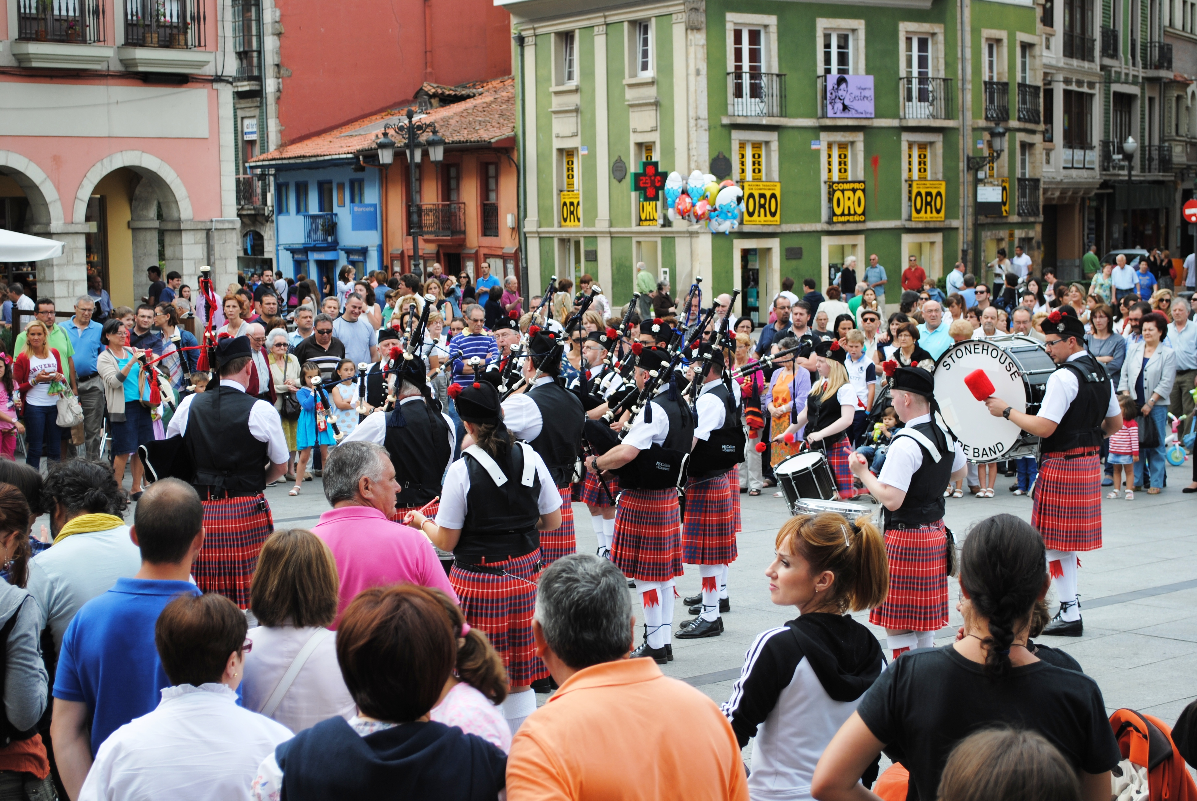 See title.